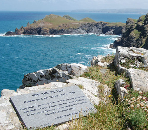 Image of the plaque on Pentire Point, north Cornwall, UK commemorating the composition of the poem 'For The Fallen' The photograph was taken by me in 2005